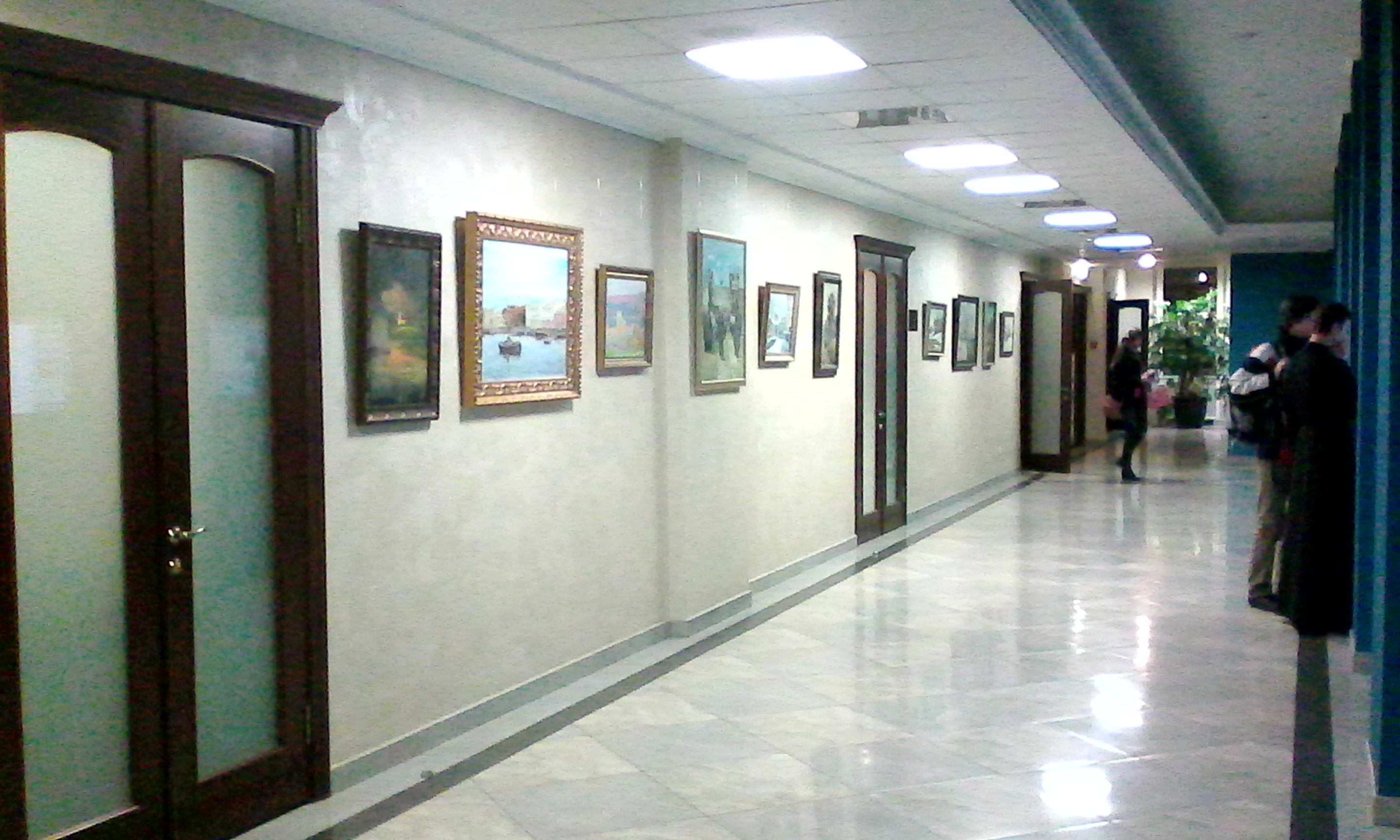 Corridor on the second floor of the Candlemas Theological Seminary, Moscow. During the break of the 27th lessons of the course "Biblical History"